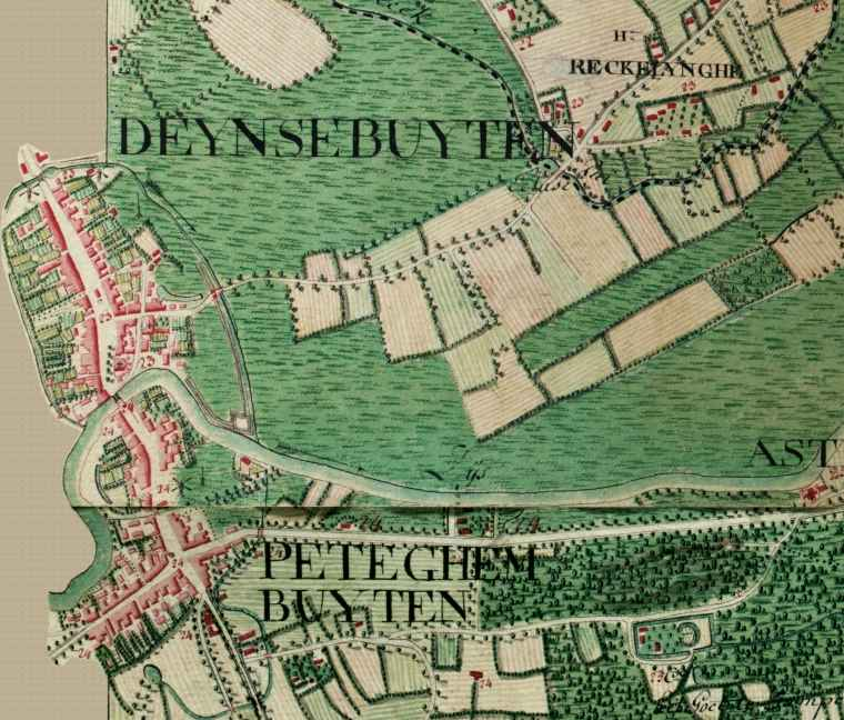 Deinze, Belgium_;_ detail from Ferraris_Map